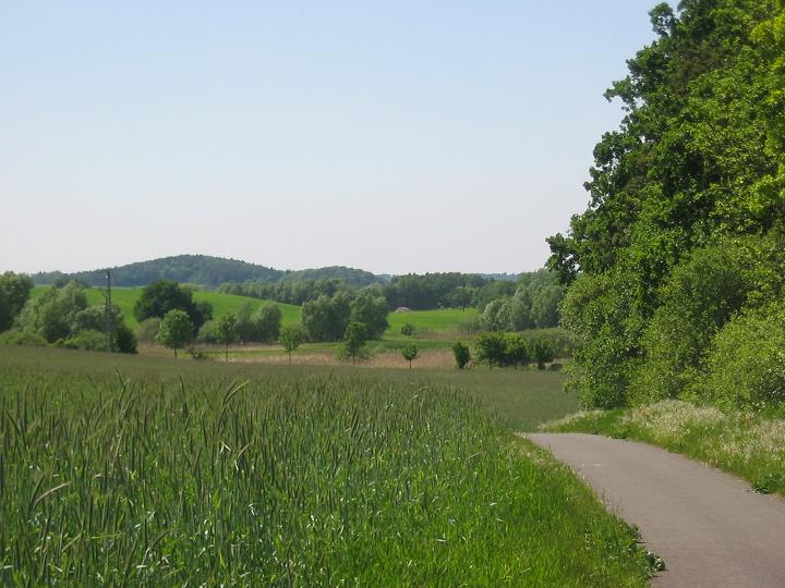 Part of the terminal moraine Chorin nearby the peninsula Pehlitzwerder, Parsteiner See. The Parsteiner See is a finger lake (proglacial lake) in Germany, Brandenburg, District Barnim, and covers 10,03 km²